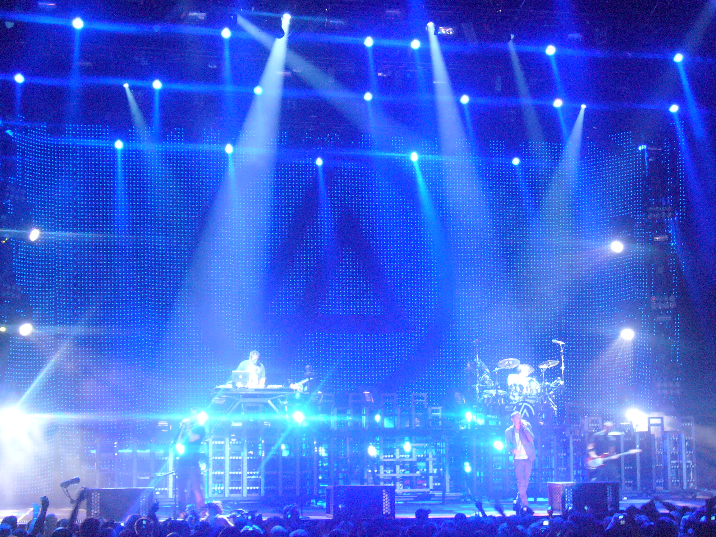 Photo of Linkin Park's concert in Marysville, CA